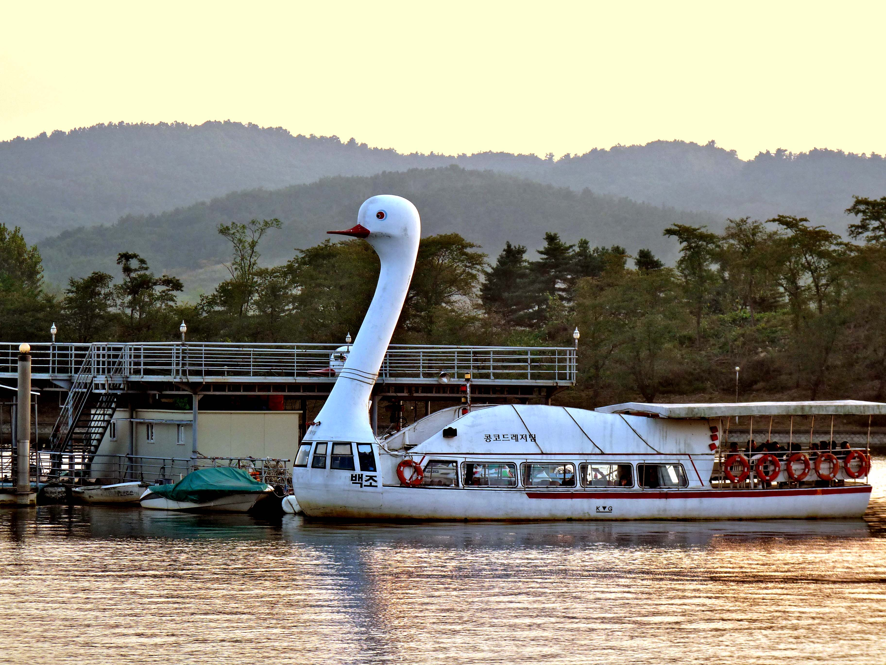 A view of Bomun Lake in Bomun Lake Resort, Gyeongju, North Gyeongsang province, South Korea